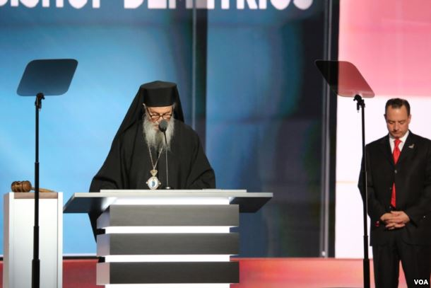 Archbishop Demetrios, of the Greek Orthodox Archdiocese of America, gives the benediction at the end of Wednesday's program of the Republican National Convention, July 20, 2016.